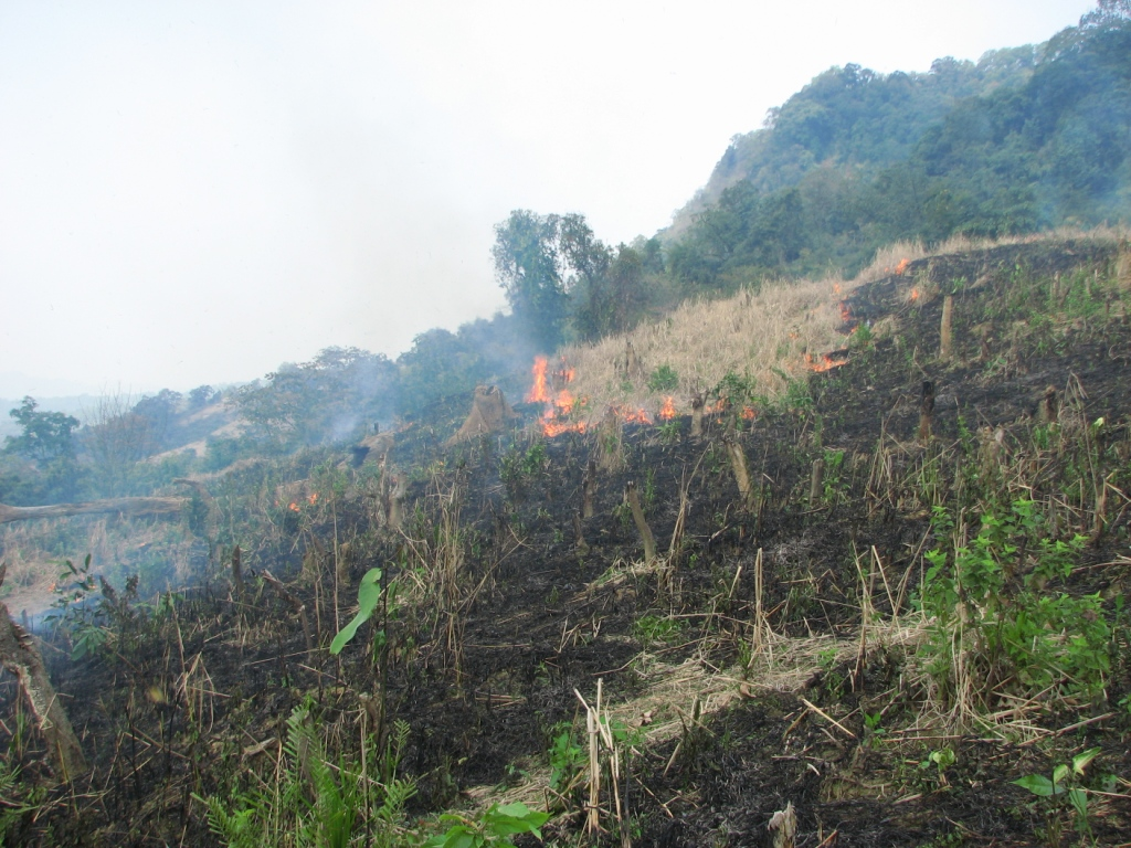 Jhum Field being prepared for planting in Arunachal Pradesh, India.